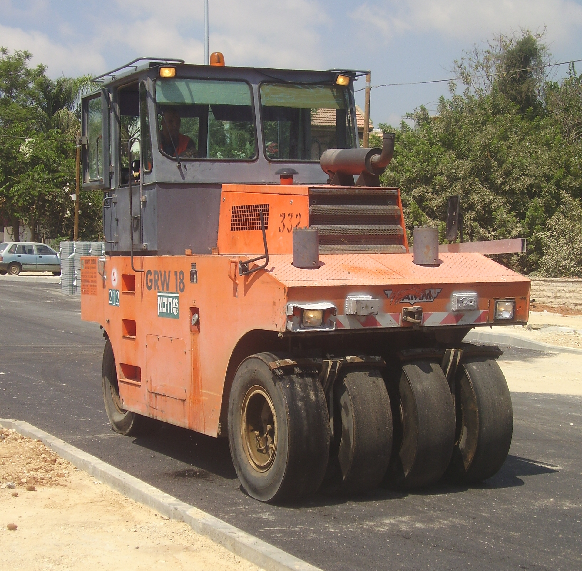 A Hamm AG GRW 18 pneumatic road roller in Pardes Hanna-Karkur, Israel